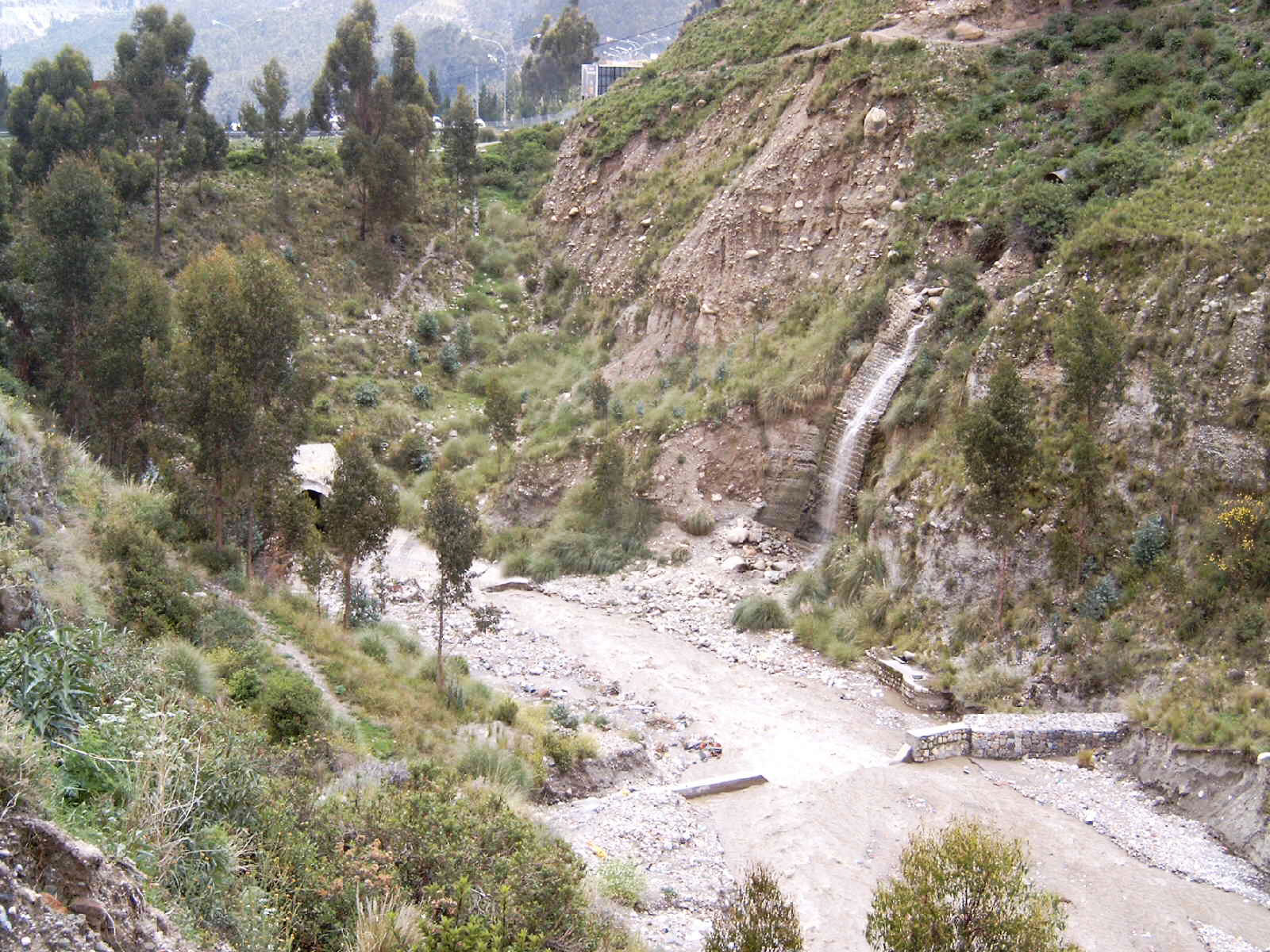 Río Choqueyapu before Ruta 3 at km 22, facing south